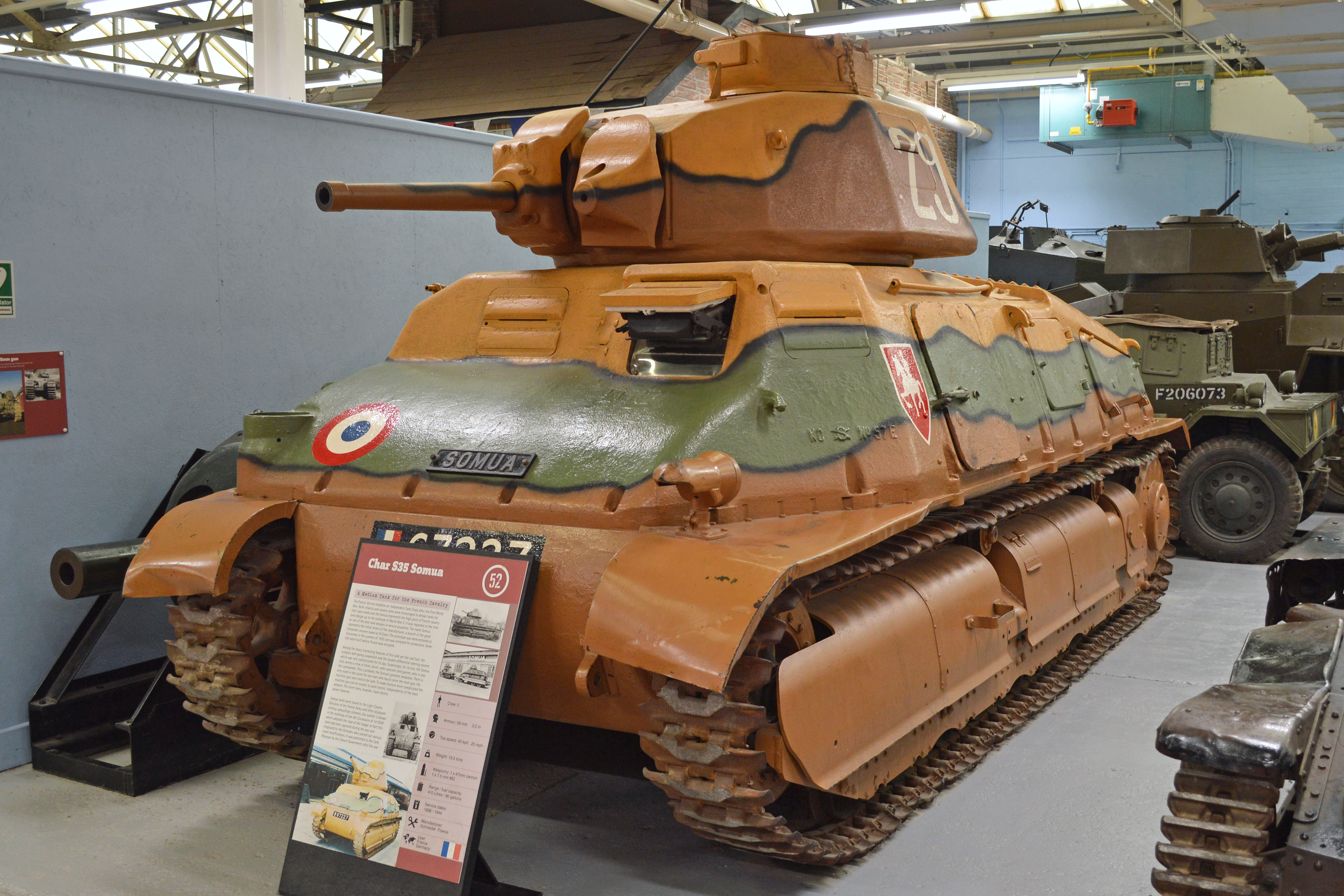 Serial No 57. The S-35 was a French cavalry tank built between 1935 and 1940, with over 400 produced. After the fall of France in 1940, captured S-35s served with Germany, Hungary, Italy and Bulgaria. This example was captured and employed by the Germans, who carried out various small modifications (German aerial base, and commander’s cupola cut off in the style adopted by Germans on captured French equipment). It was presented to the museum by France in June 1957 and wears the markings of the 4th Cuirassiers of 1st DLM, which adopted the Joan of Arc badge. Its side hatch is removed so the interior can be seen. On display at The Tank Museum, Bovington, Dorset, UK. 26th July 2016